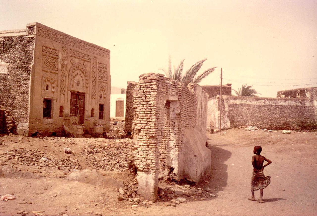 Zabid, Yemen. Really a forgotten place - 1000 years ago it was among the most sophisticated centers of learning in Arabia.